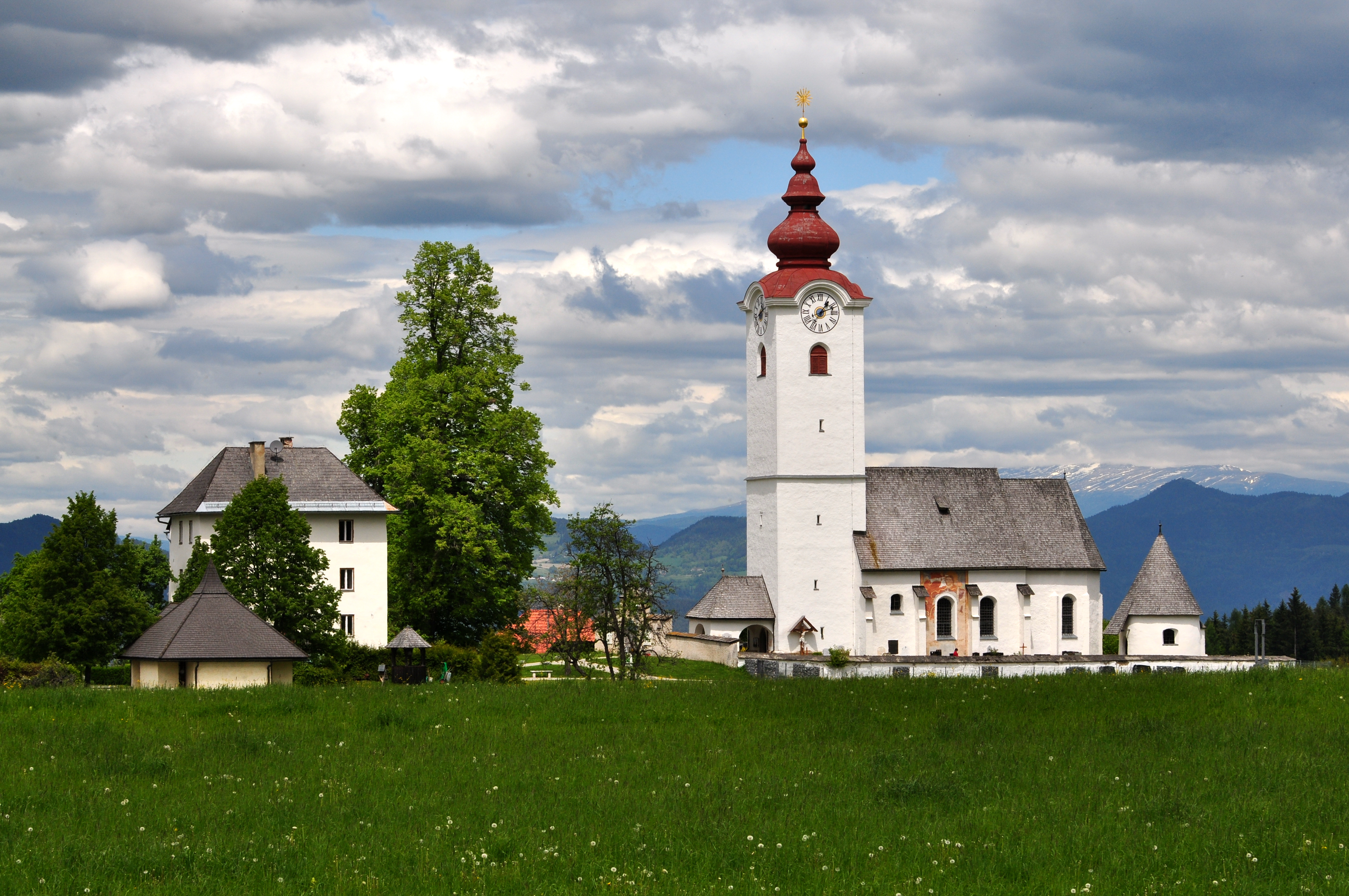 Parish church Saint Lambertus in Radsberg, market town Ebenthal, district Klagenfurt Land, Carinthia, Austria, EU